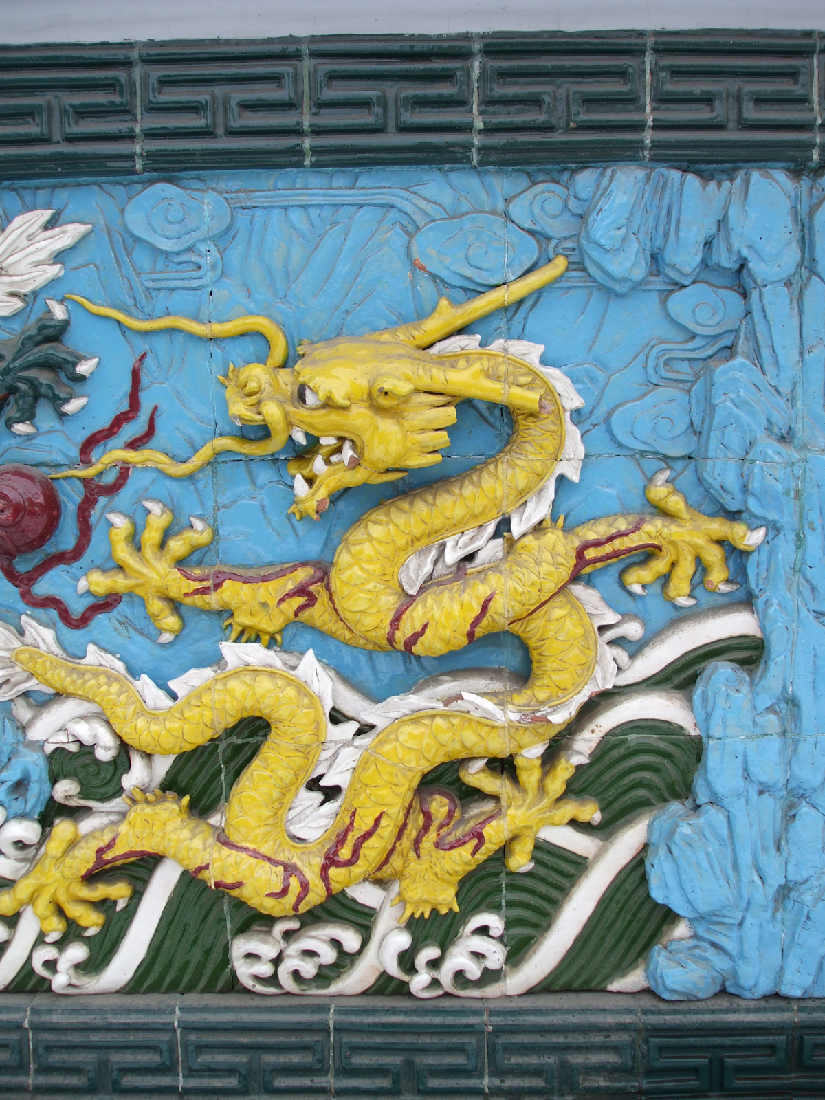 Yellow china dragon in the China garden (St.Petersburg)